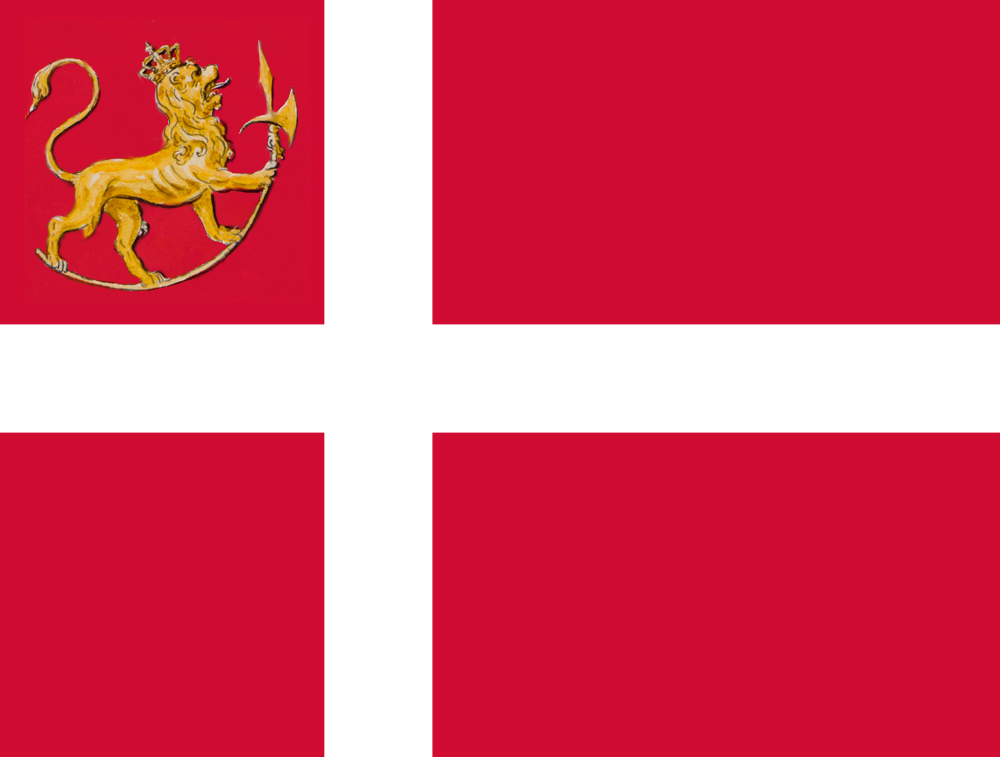 Flag of Norway 1814-1821, adopted 27 February 1814. Design by Jens Peter Stibolt.